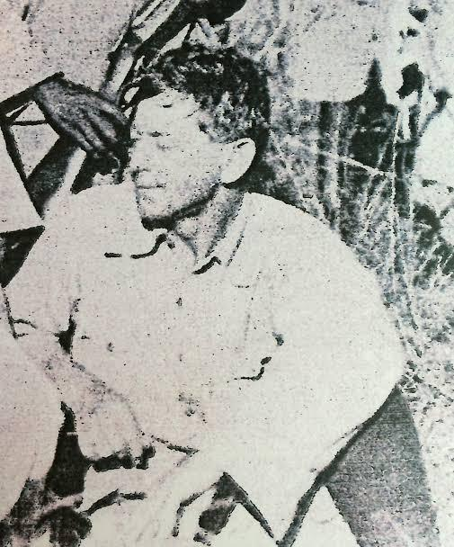 Samaki Salmon, Uganda 1928